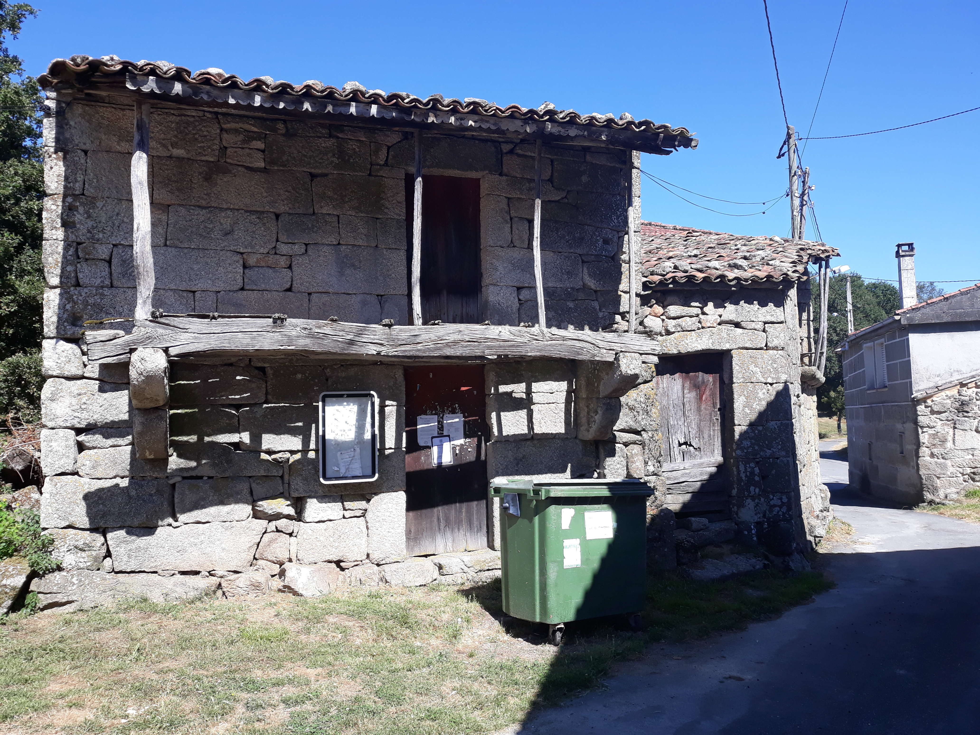 House in the hamlet of Padroso, a hamlet on the Vía de Plata route of the Way of St. James, in Galicia, Spain.